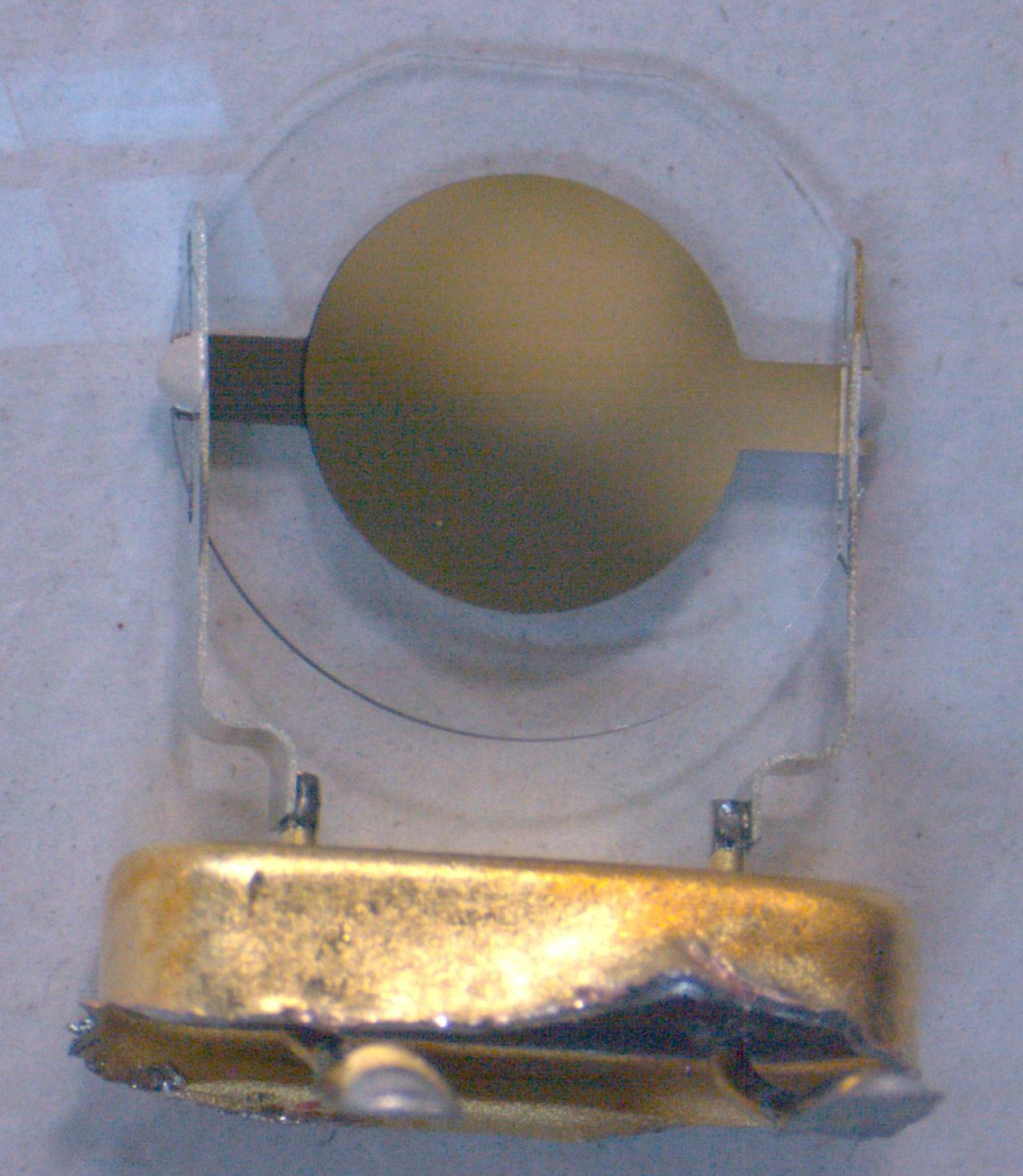 Inside construction of a typical HC49 case quartz crystal